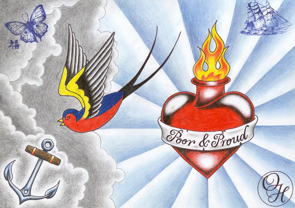 Classical old schoo tattoo